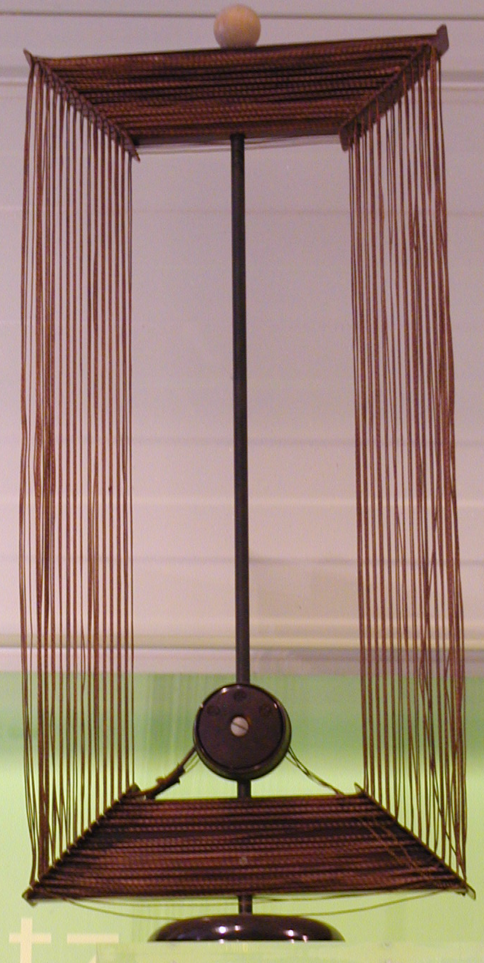 Early loop antenna for an antique MW or LW radio